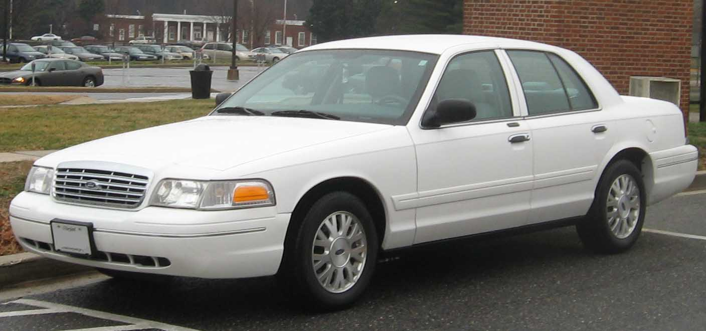 2003-2007 Ford Crown Victoria photographed in College Park, Maryland, USA.